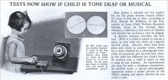 1931 magazine feature describing hearing tests done at the University of Iowa Child Welfare Research Station. Out of the magazine Popular Science.